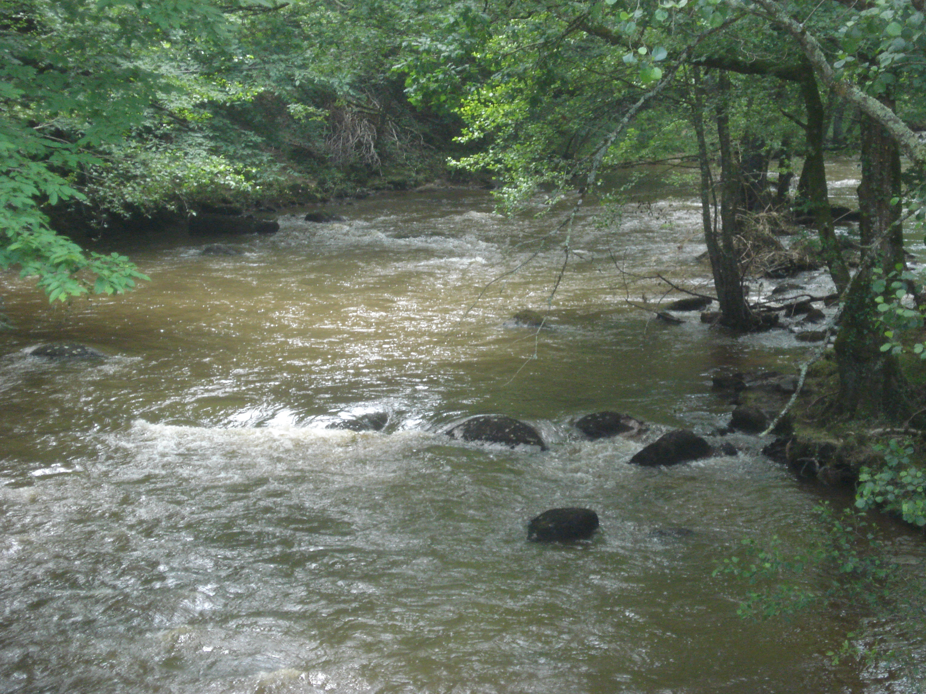 The Sédelle near the Pont Charraud (Charraud or Charreau bridge) at Crozant (Creuse,Fr)